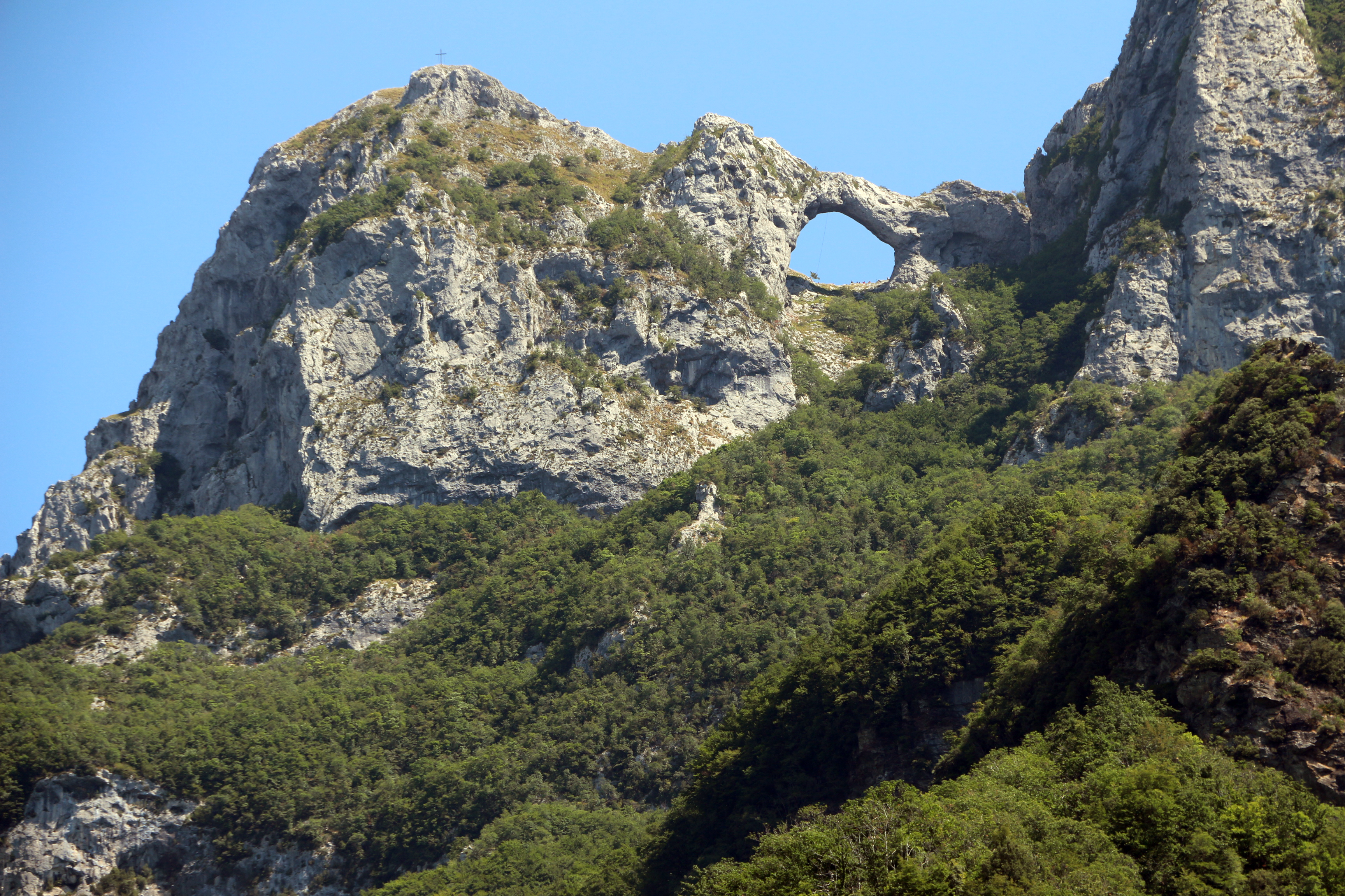 Monte Forato